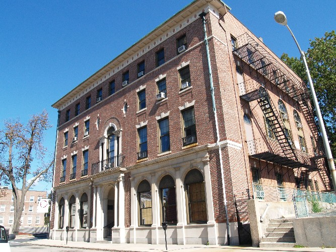 Womens Union (built 1909), Rock Street, Fall River, Massachusetts